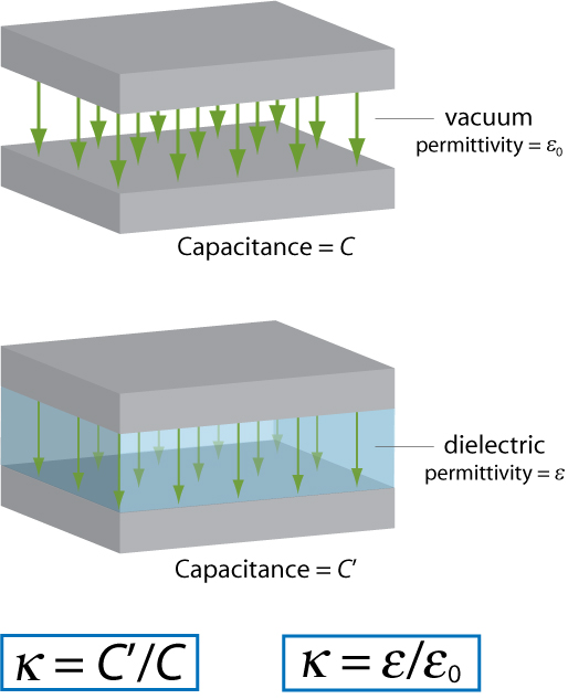 the dielectric constant